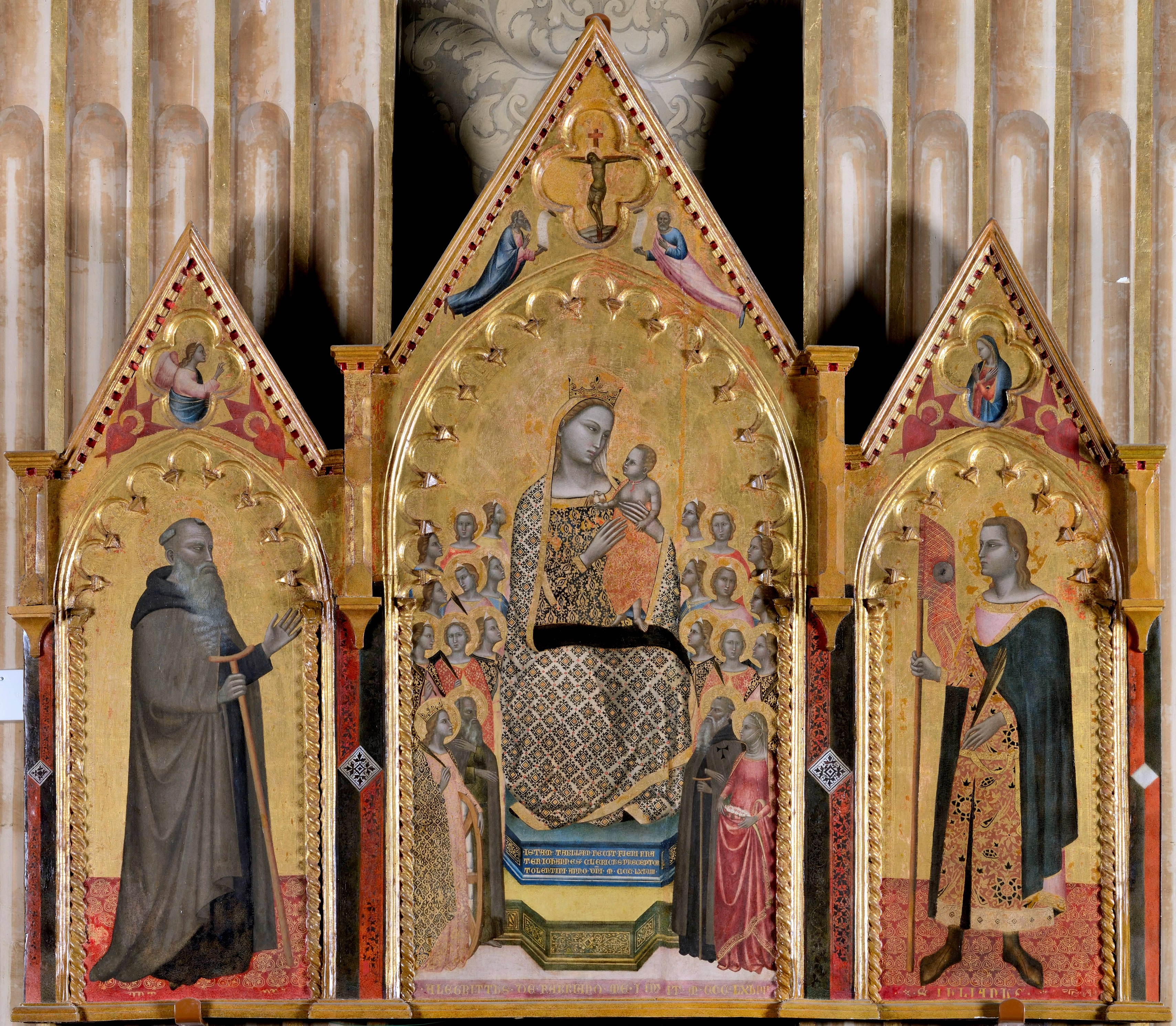 ALLEGRETTO NUZI, Trittico, Macerata, Chiesa Cattedrale di San Giuliano